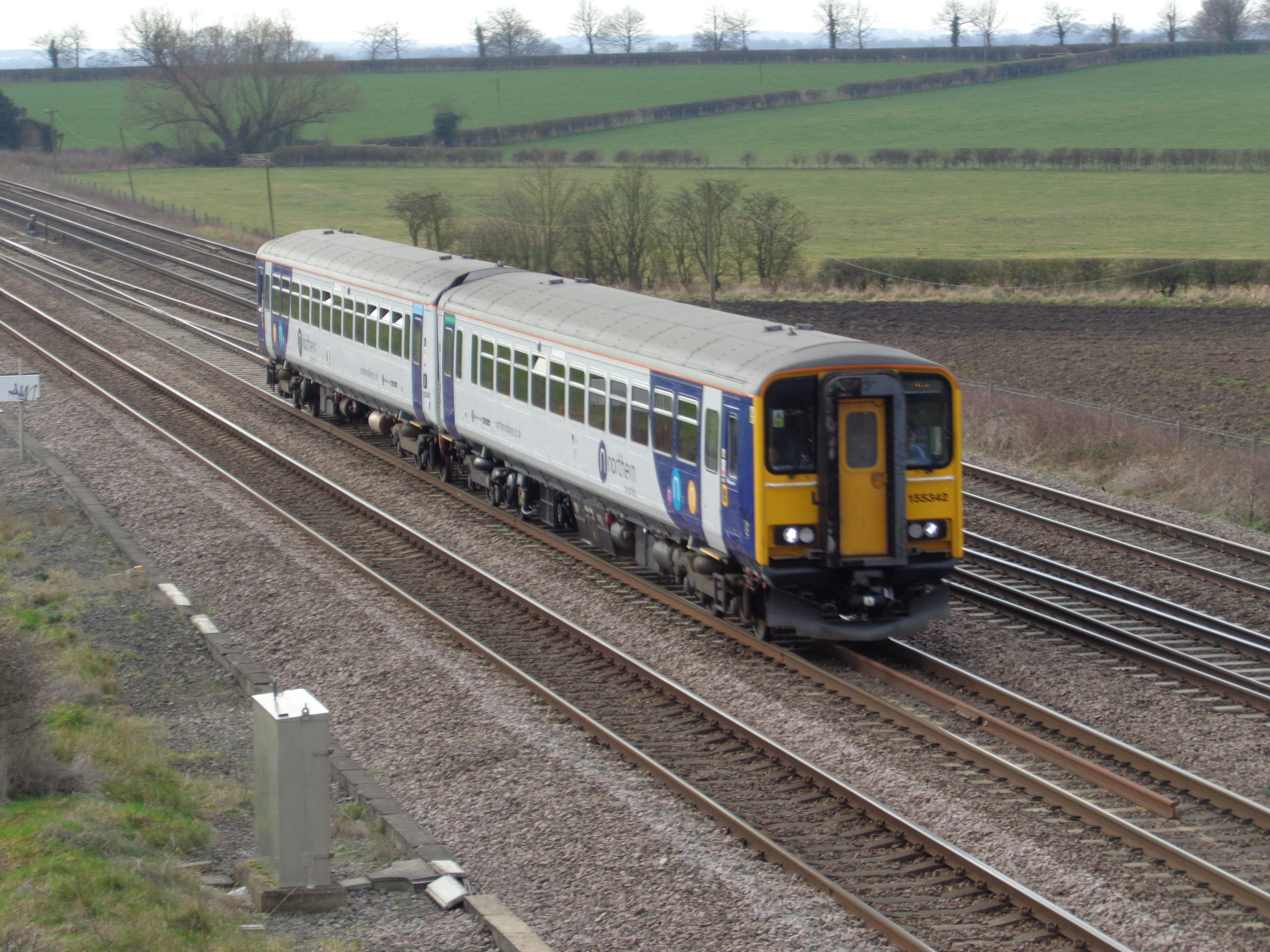 155342 at Colton Junction